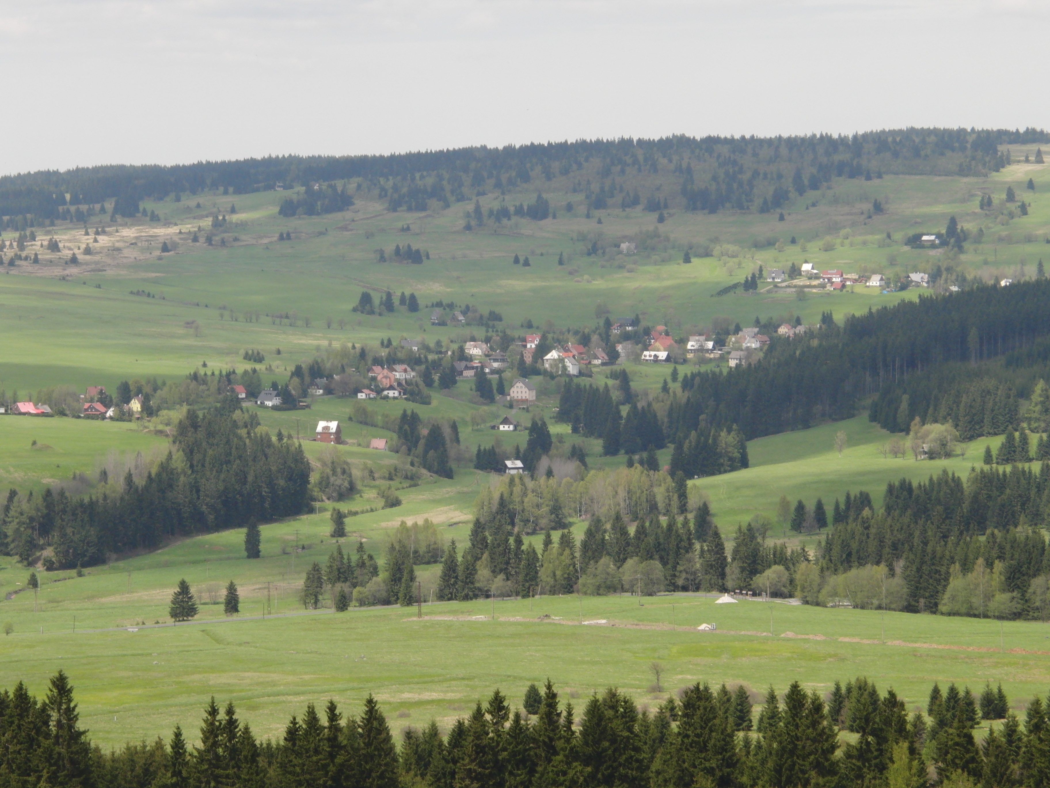 View of Hřebečná, part of Abertamy, from Plešivec., Ore Mountains